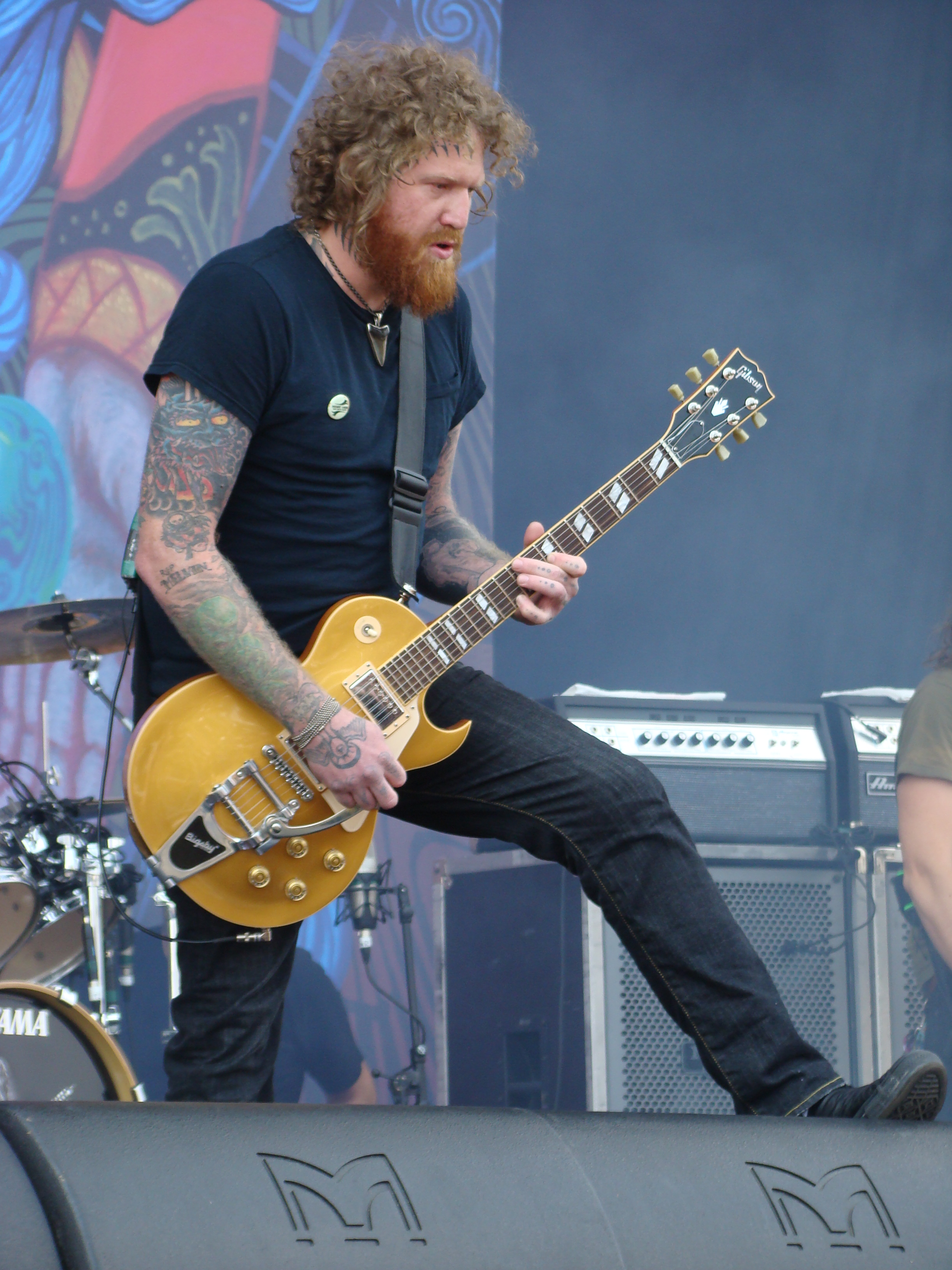 Brent Hinds from Mastodon